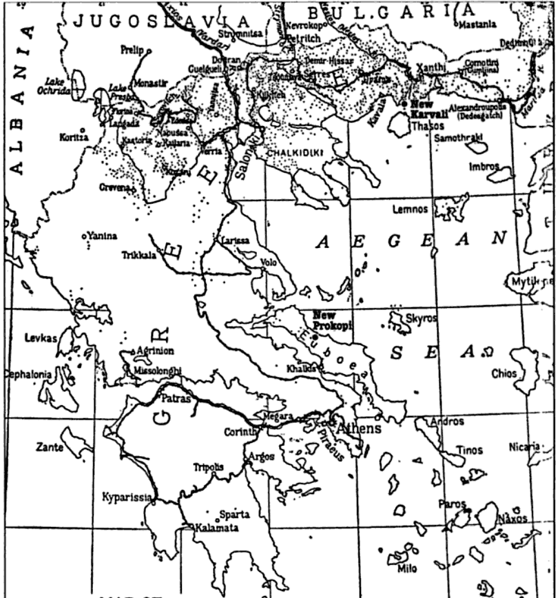 Map of Greek Refugee Settlements in Greece, 1926